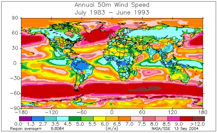 Annual 50m above ground level average wind speed.